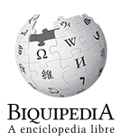 Wikipedia logo 2.0